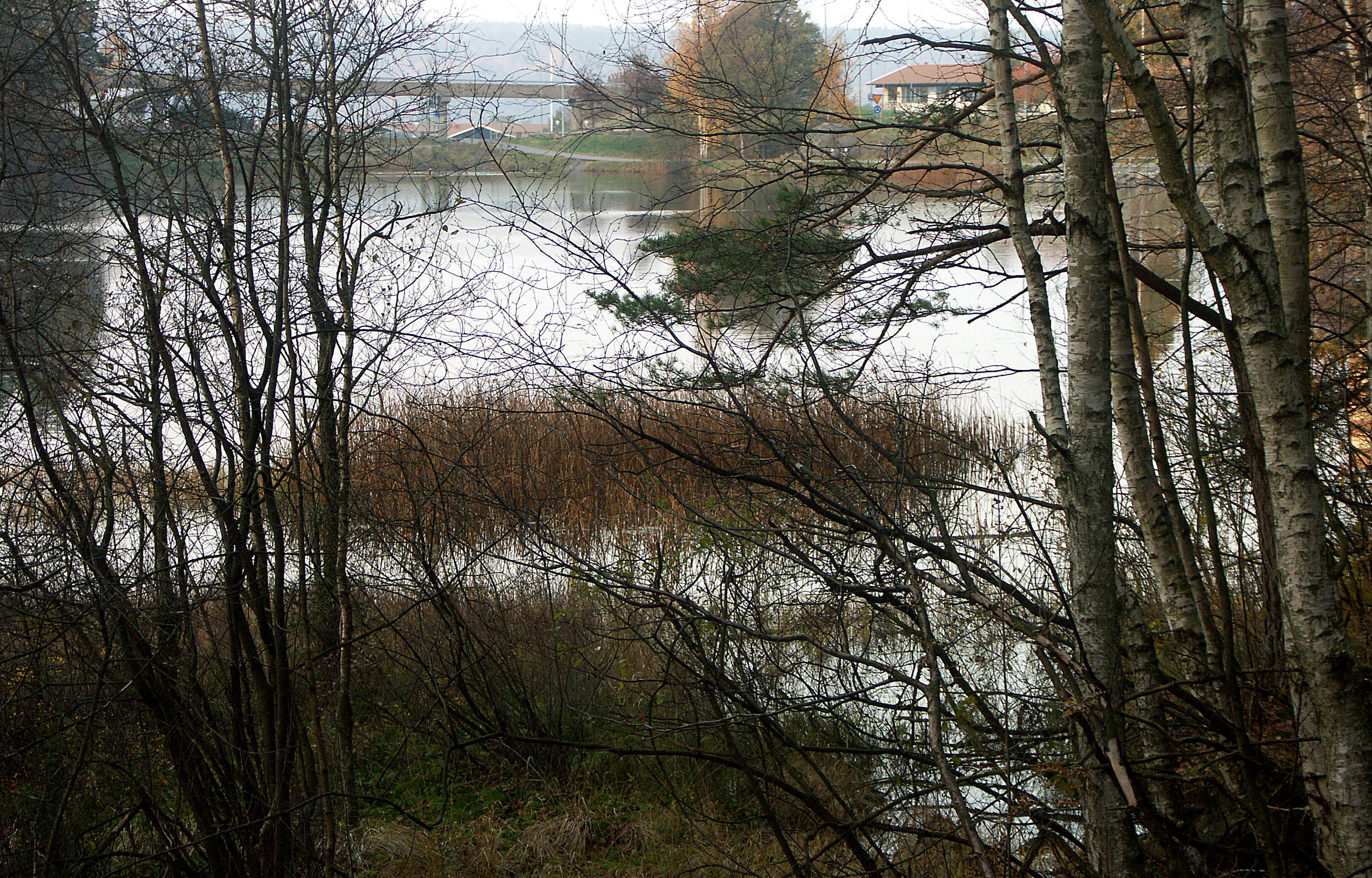 Björndammen (Bear Pond) in Partille, Sweden.